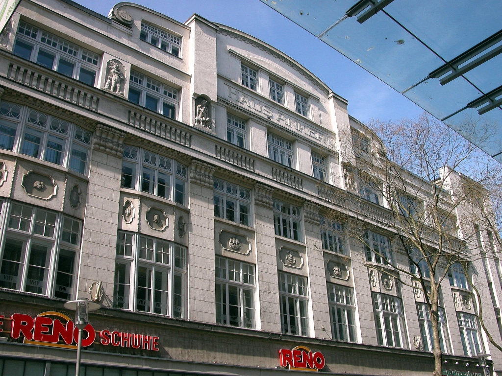 “Haus Anker” (Anchor House), Friedrich-Wilhelm-Straße 51 at Braunschweig, Germany; upper section of front façade